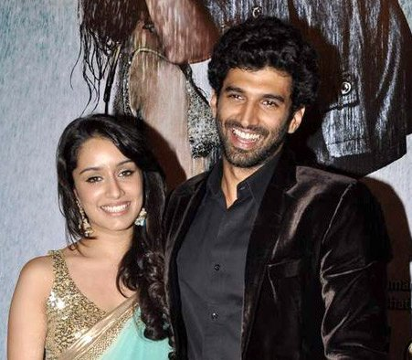 Shraddha Kapoor at audio release of Aashiqui 2 at Sudeep studios